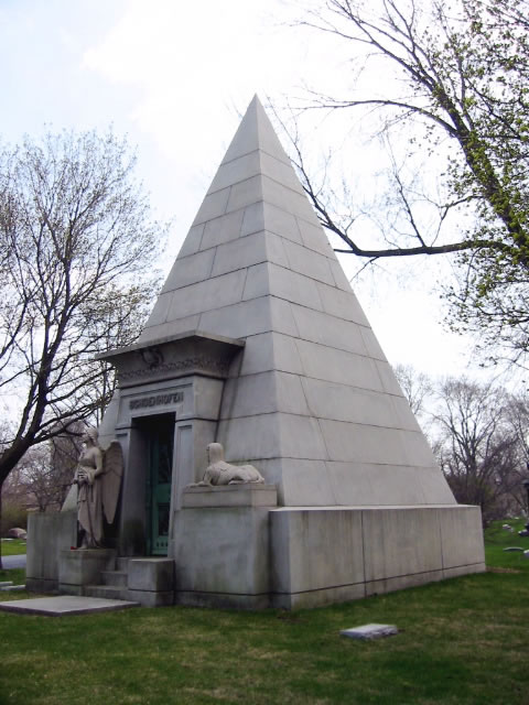 Schoenhofen mausoleum, with pyramid and sphinx (but not hieroglyphs, thankfully)